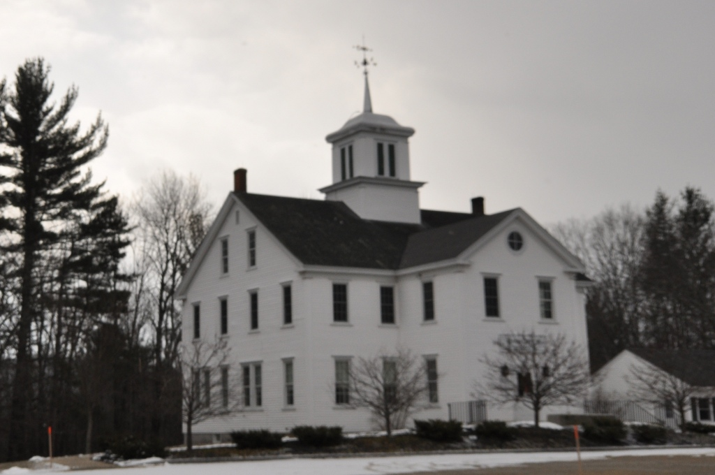 Town Hall of Hancock, New Hampshire, part of the Hancock Village Historic District.